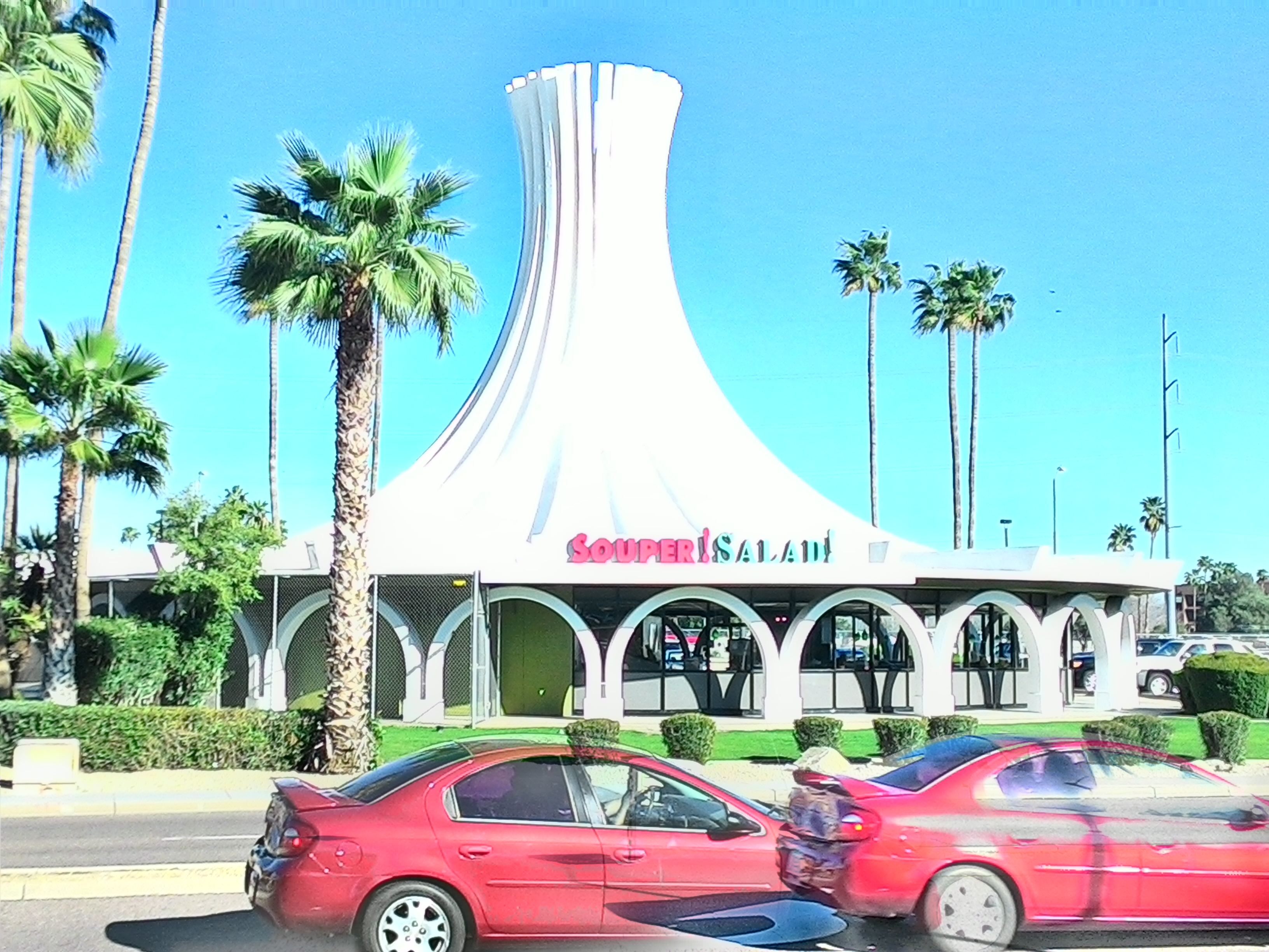 Souper Salad restaurant in former bank branch designed by Wenceslao Sarmiento, Phoenix, Arizona